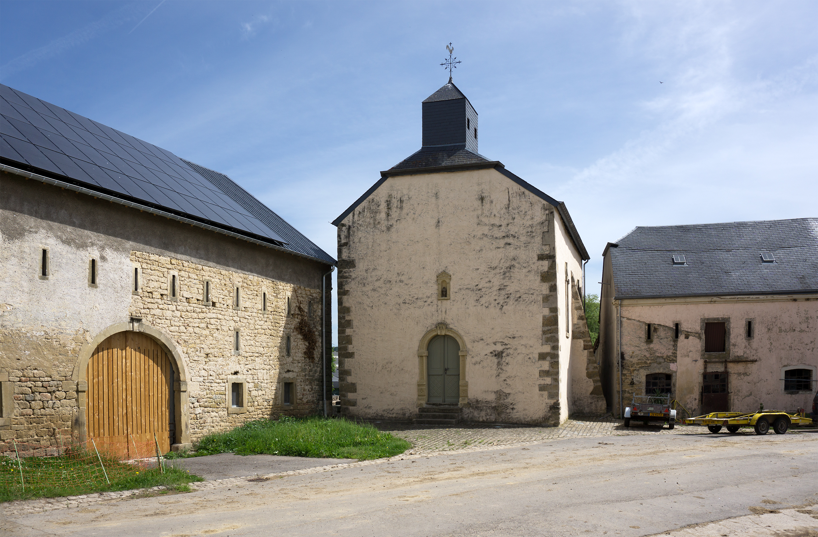 Chapel in Weyer, Luxembourg